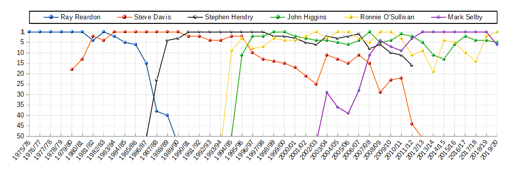 Snooker world rankings for the dominant players from1975 to 2020